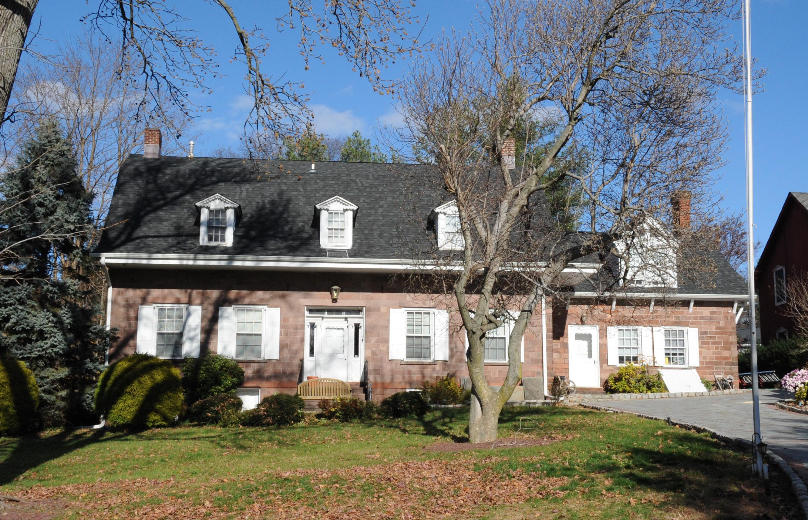 AKA CAPT. JOHN HUYLER’S FARM; THIS HOME IS ON THE LAND ONCE OWNED BY LOYALIST JOHN ACKERSON. IT WAS SEIZED BY THE PATRIOTS AND WAS BOUGHT BY MILITIA CAPTAIN JOHN HUYLER. HIS SON PETER HUYLER BUILT THE PRESENT HOUSE IN 1836.